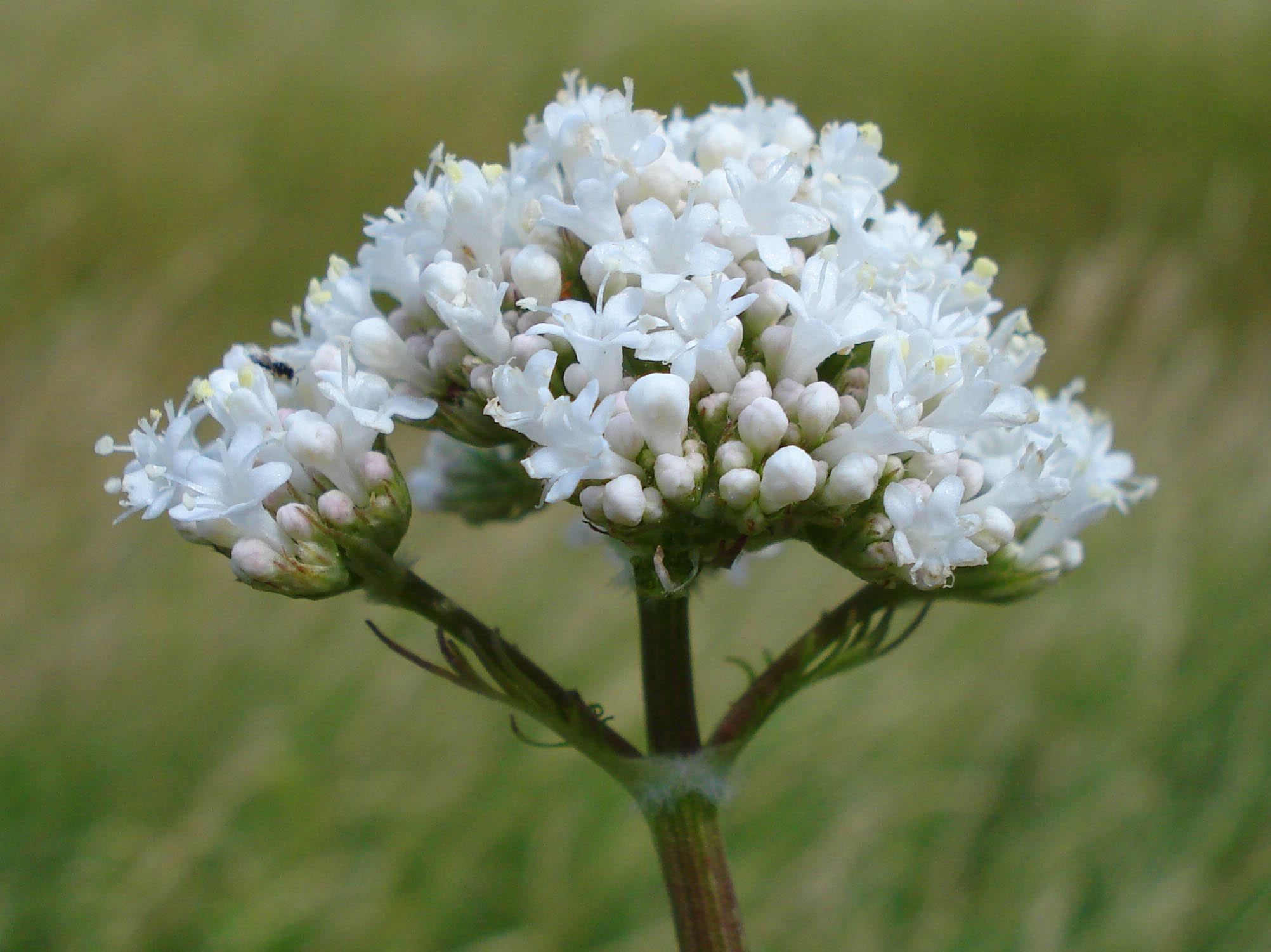 Valeriana wallrothii (Unterfranken, Germany)